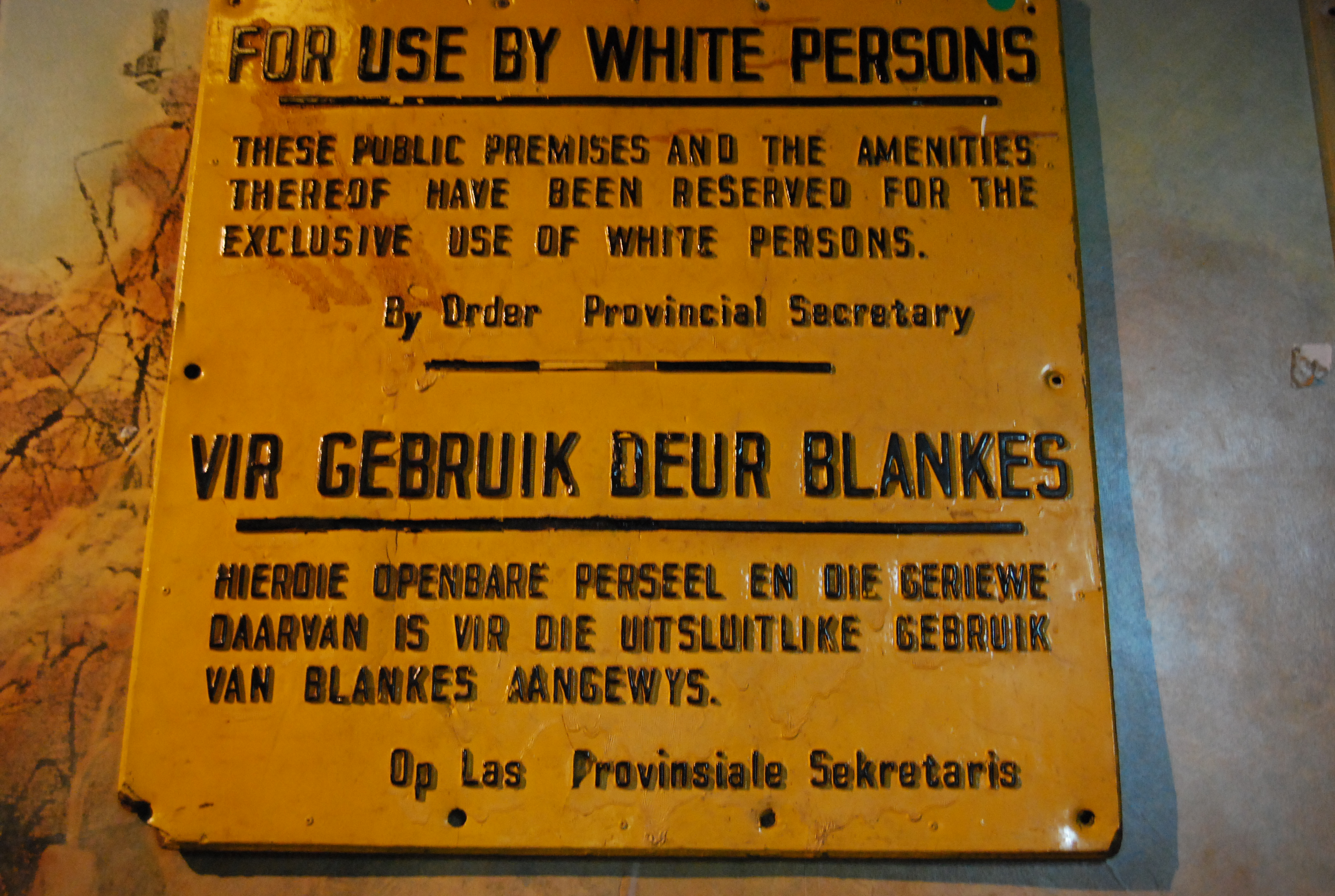 An old sign from the Apartheid era, captured at District Six Museum in Cape Town.